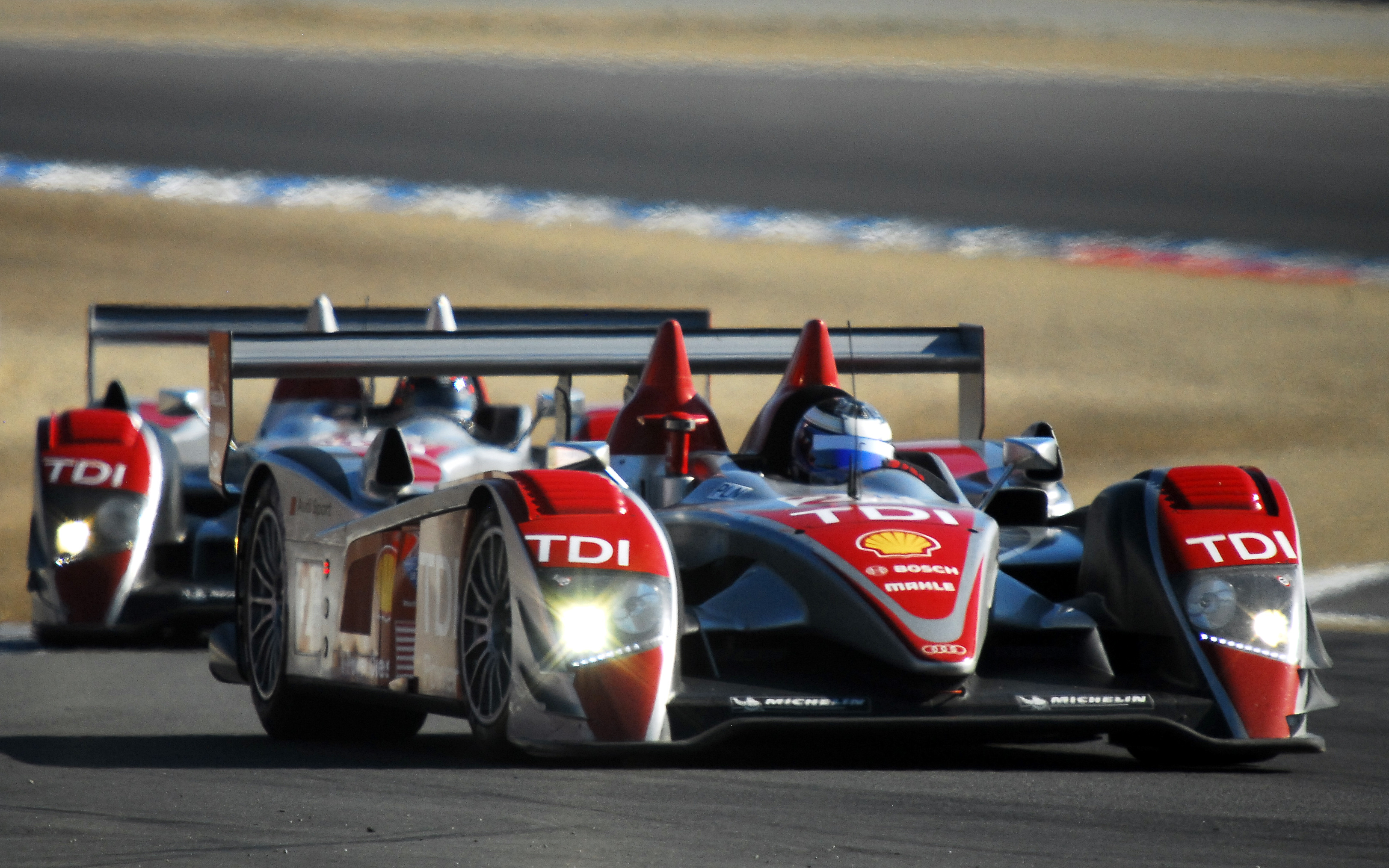 Lucas Luhr driving Audi Sport North America's Audi R10 TDIs at the 2008 Monterey Sports Car Championships.